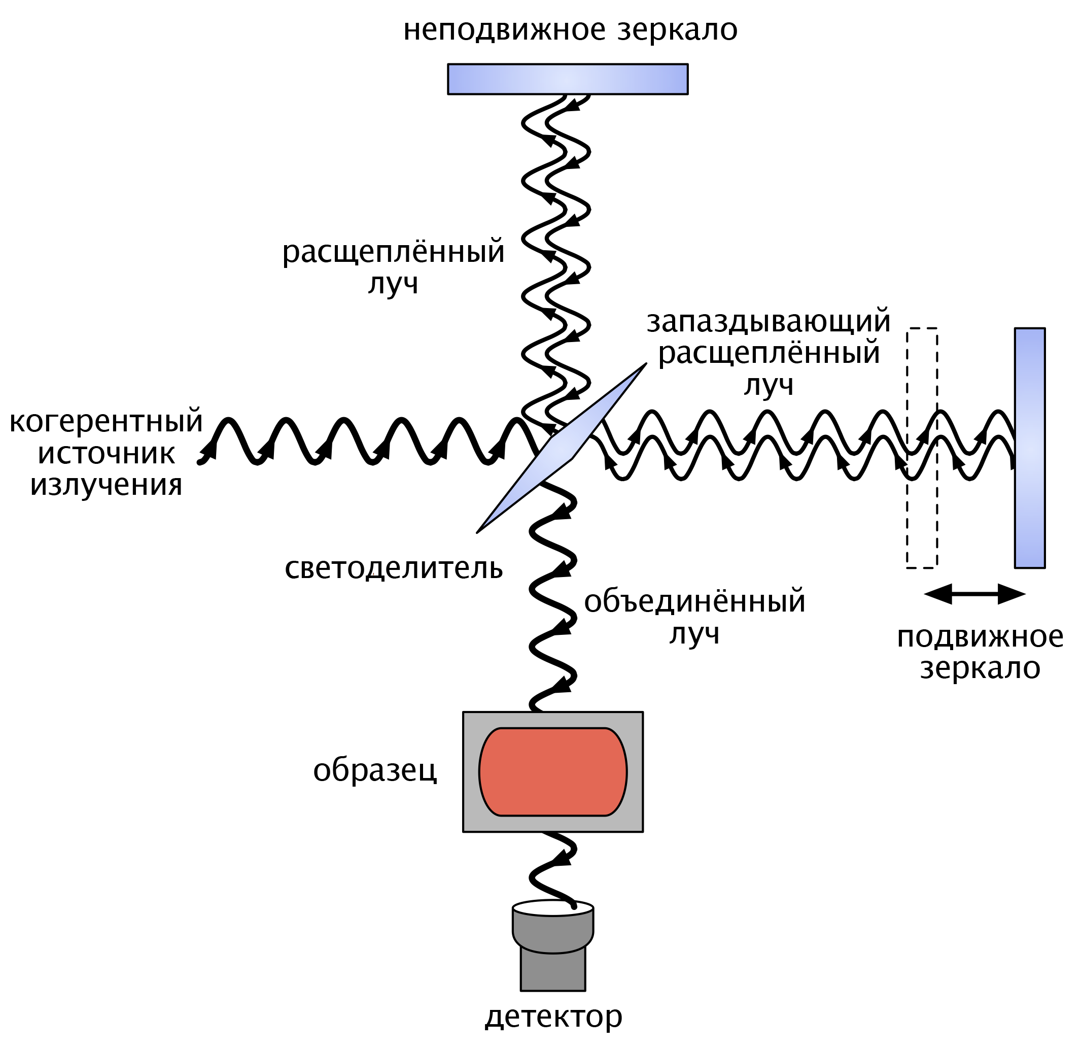 Interferometer for FTIR